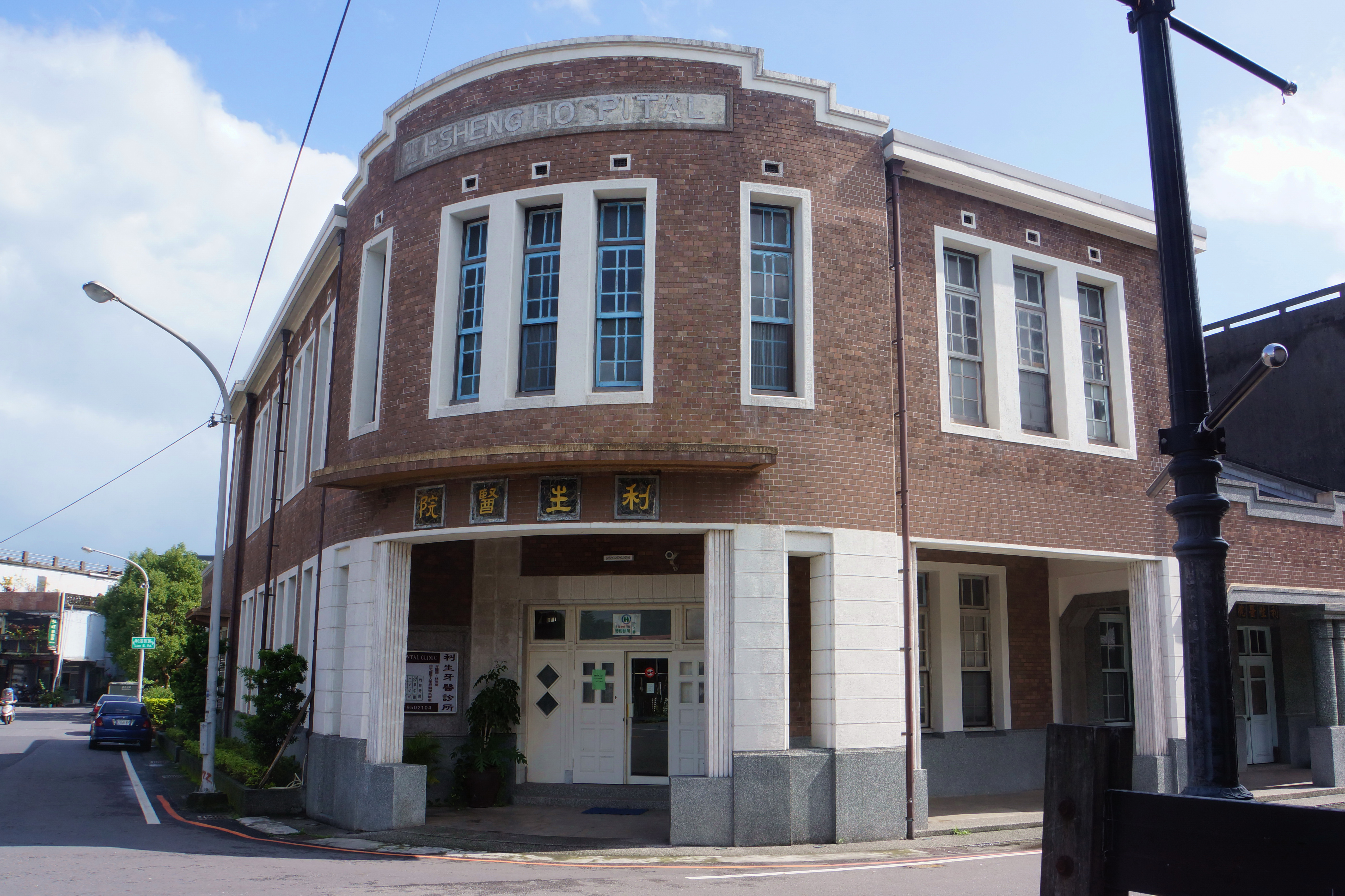 Lisheng Hospital 利生醫院